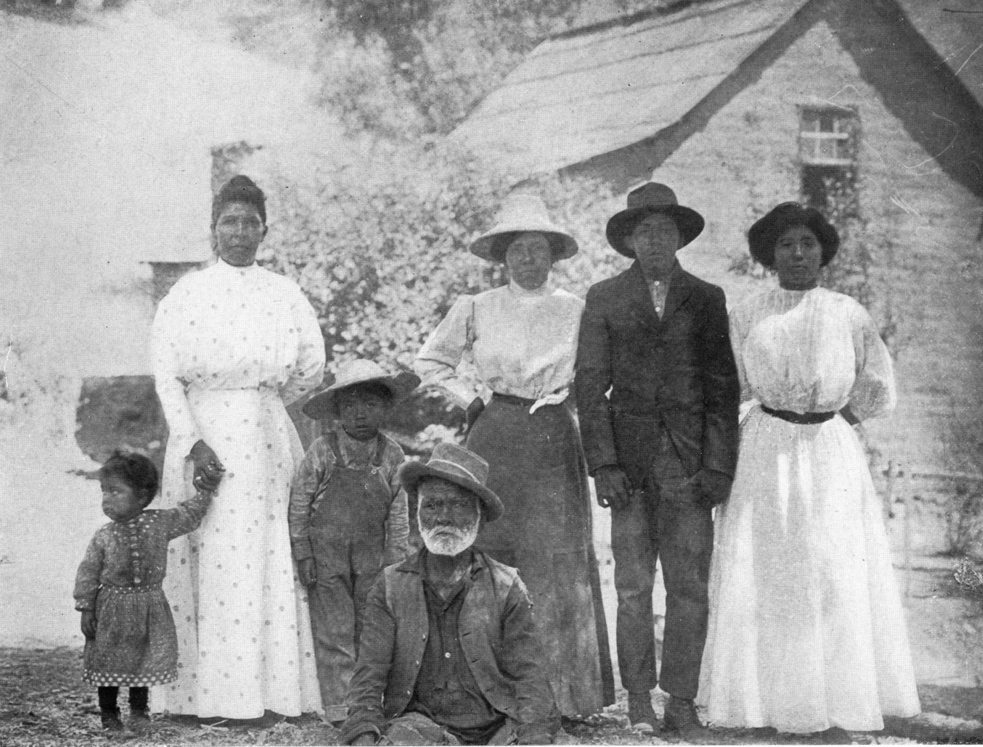 Family of Pedro Encinales, a Miguelino Salinan man born circa, 1860. He was describe as one of the last indians of Mission San Antonio de Padua. More information on Encinales at